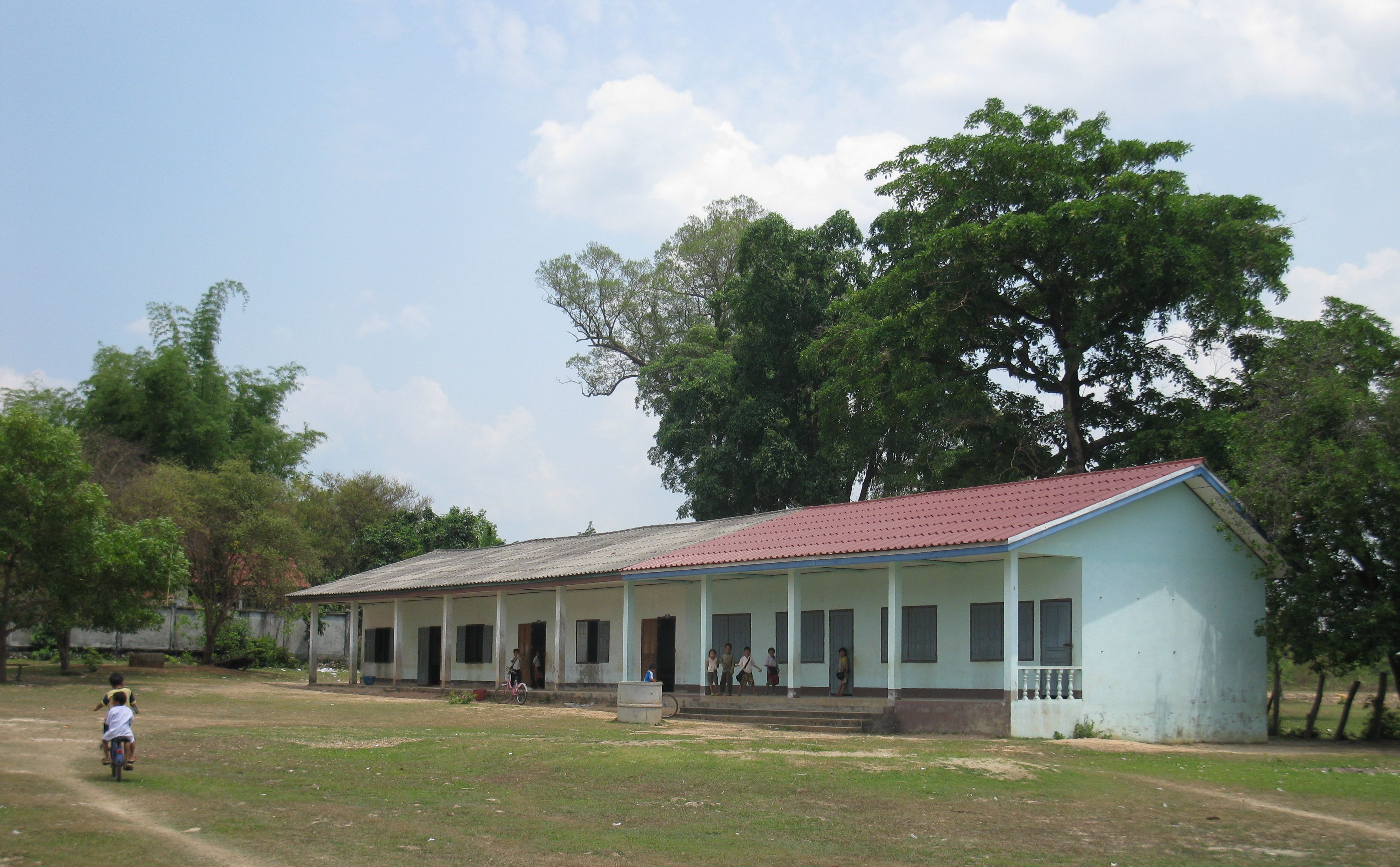 School in Thakhek, Laos